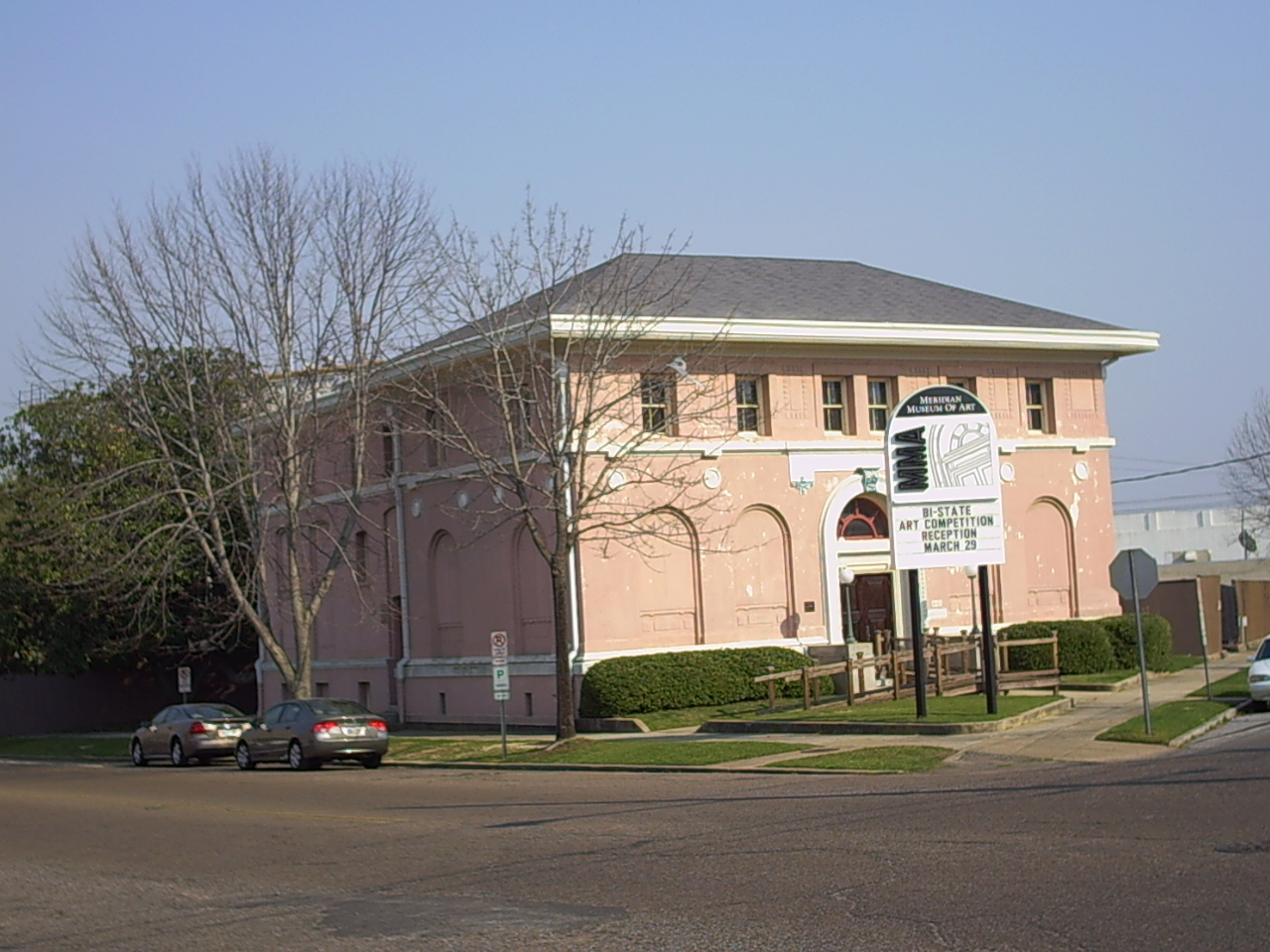 Meridian Museum of Art